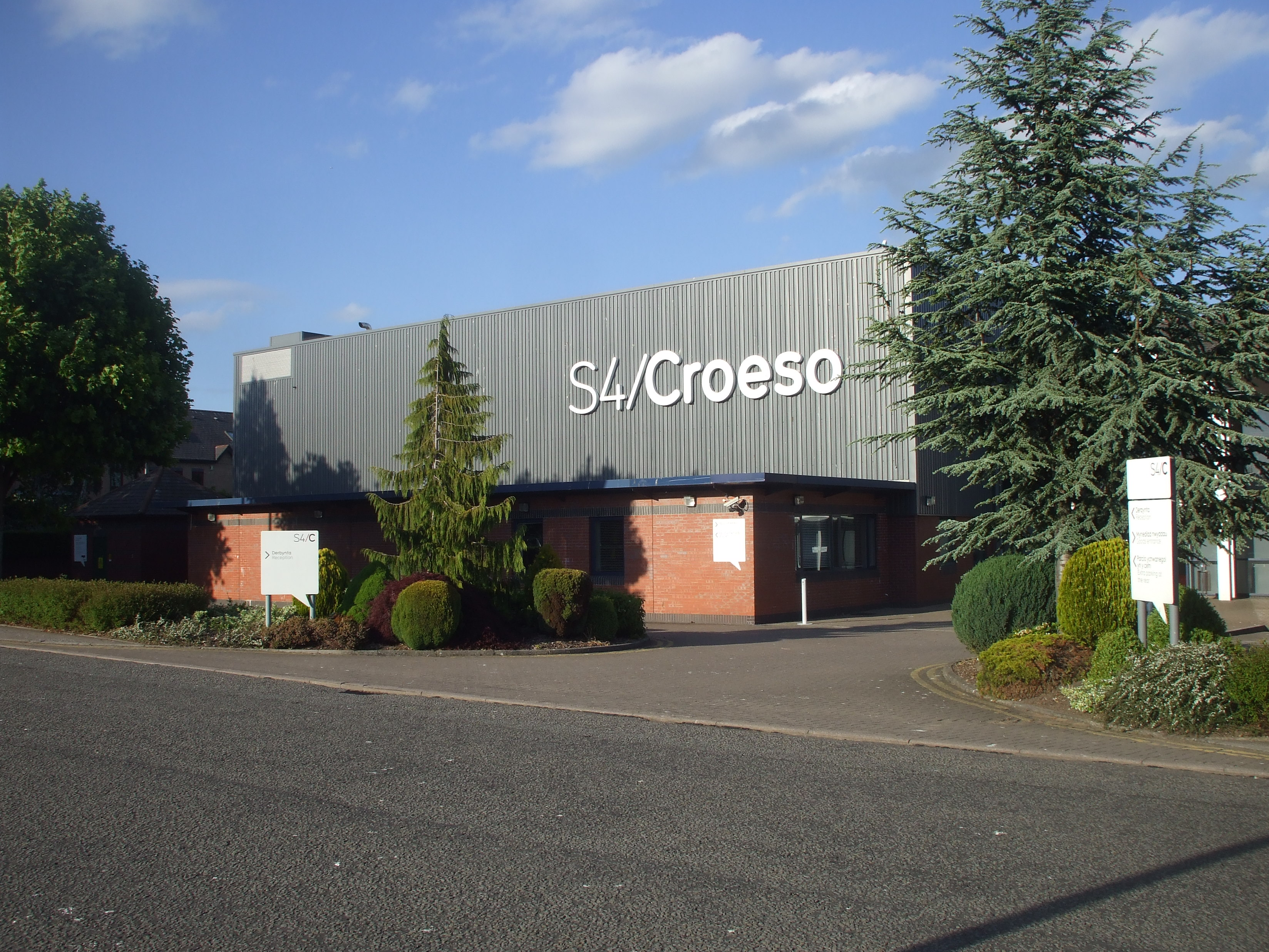 Headquarters of S4C (Welsh language Channel 4 TV)